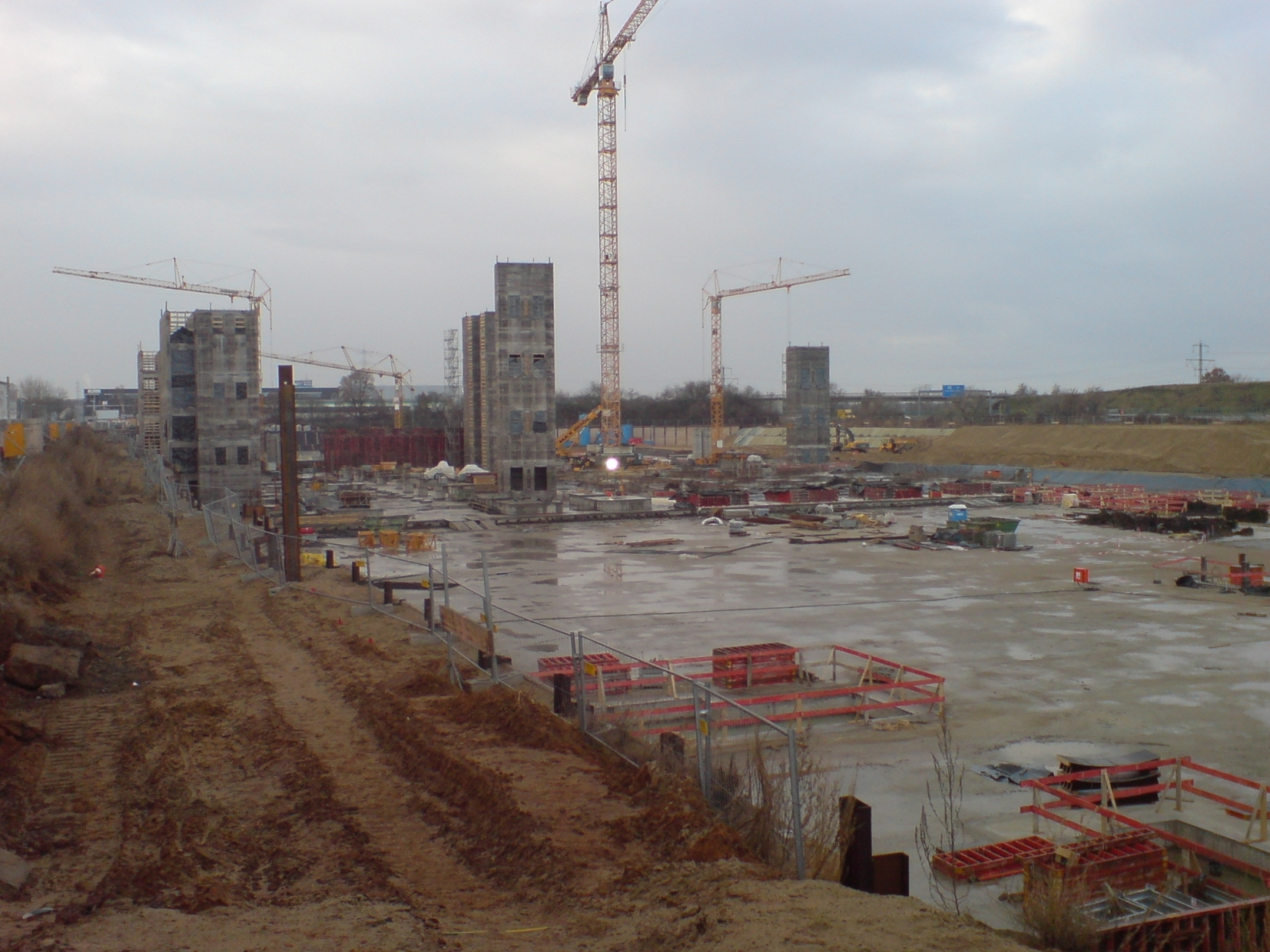 Construction of the Loop5 shopping mall in Darmstadt, Germany. Late 2007 or very early 2008.